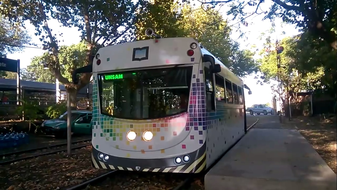 TecnoTren railcar from the University train of San Martin